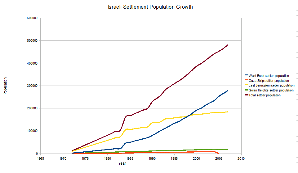 Line graph of Israeli settlement growth created by Factomancer from data collected from Peace Now and B'Tselem who obtained it from the Israeli Bureau of Statistics. OpenOffice was used to create the graph.